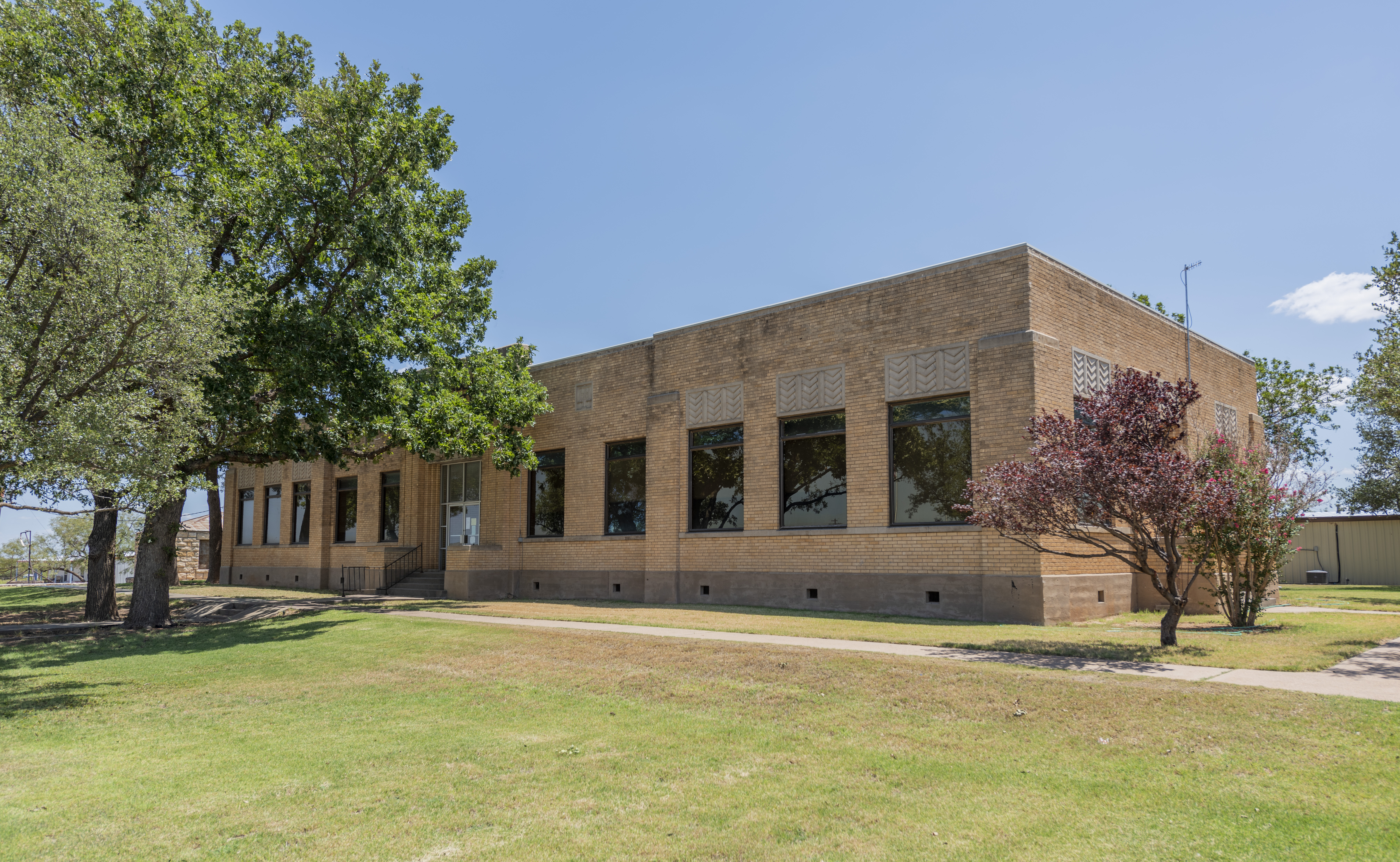 Photograph of the Borden County Courthouse in Gail, Texas. Image taken in August 2020.